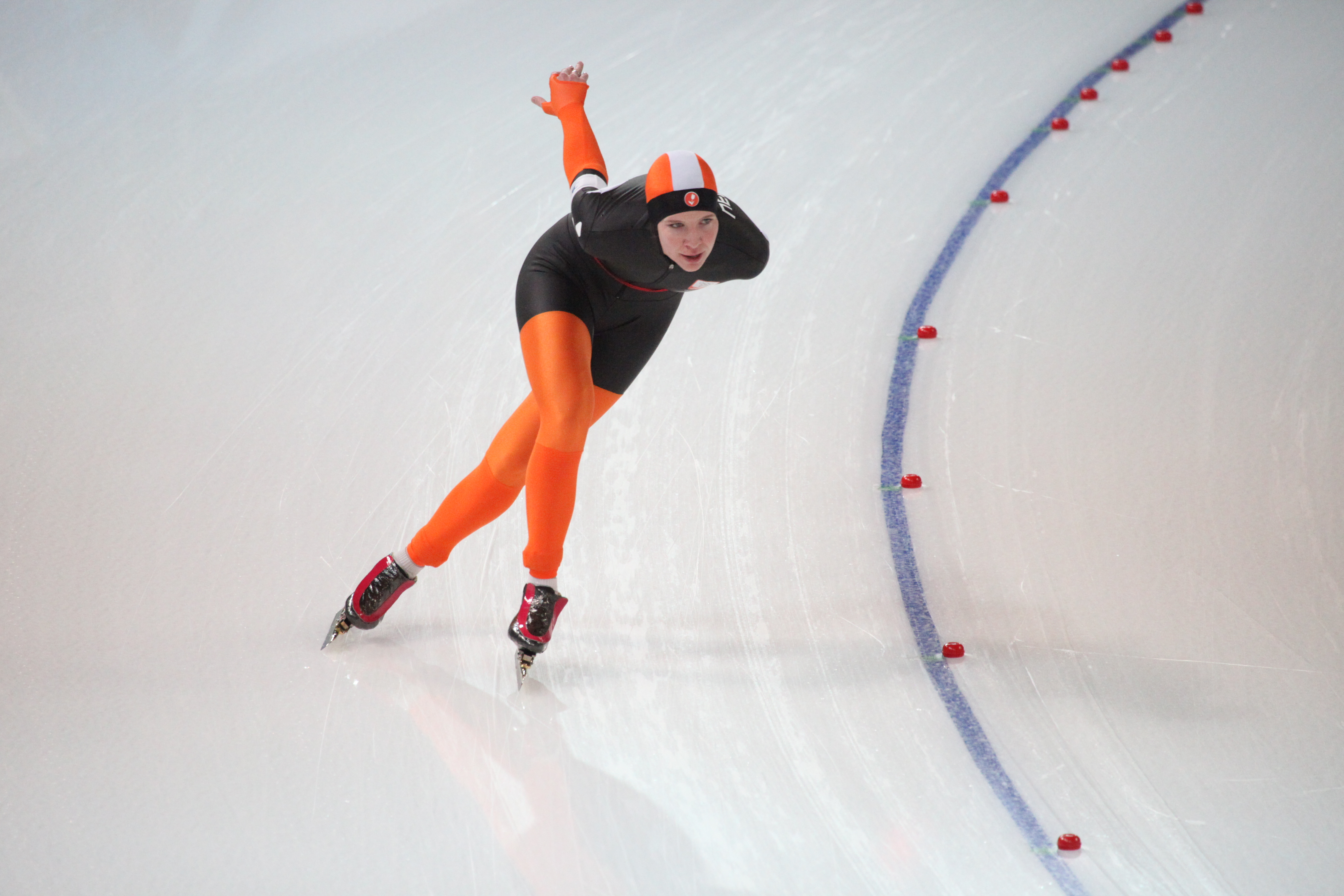 Elma de Vries - 5000m - Speed Skating